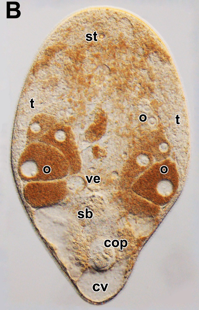 The acoel Isodiametra pulchra, a "live squeezed specimen" "This is an open access article distributed under the terms of the Creative Commons Attribution License ( which permits unrestricted use, distribution, and reproduction in any medium, provided the original work is properly cited"